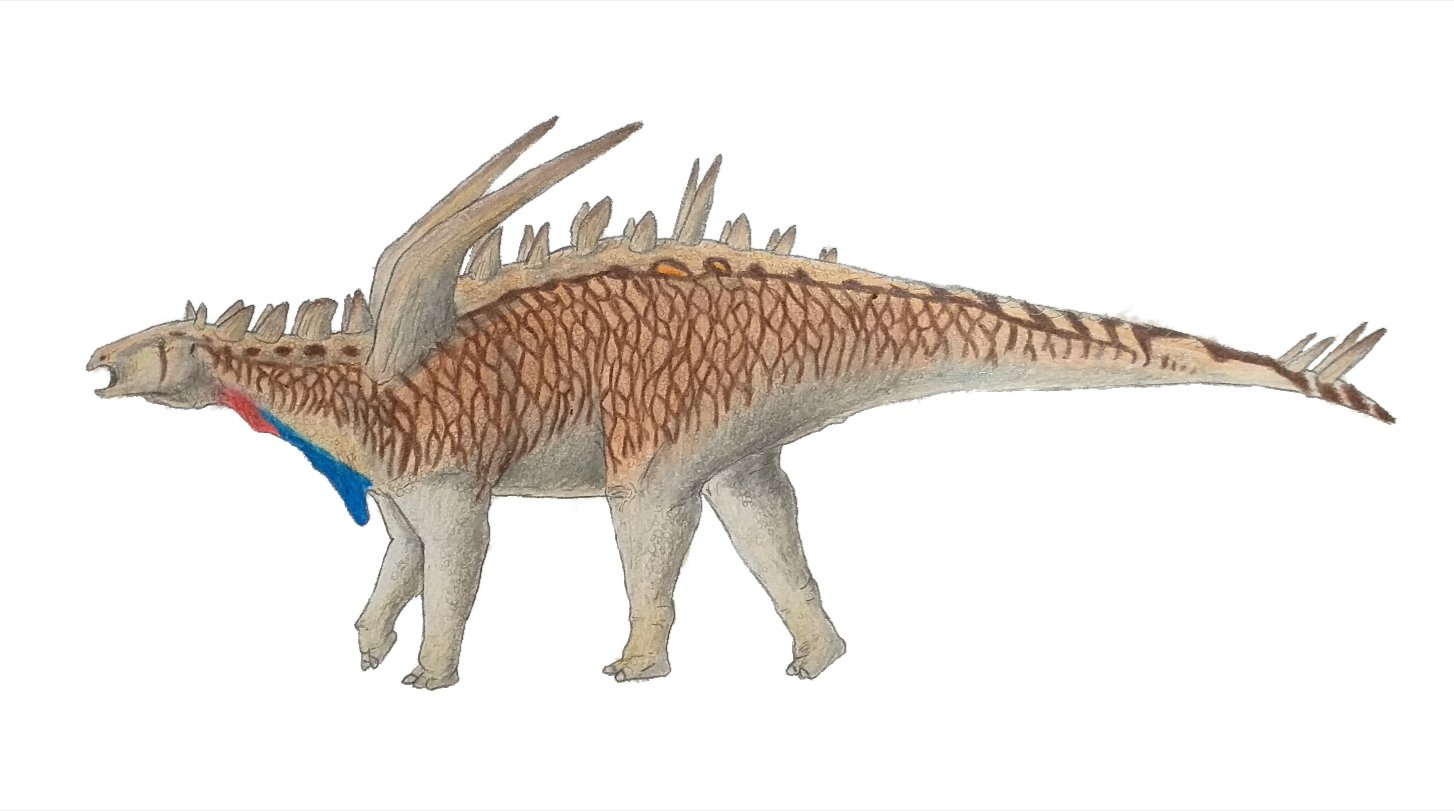 Gigantspinosaurus is a ornitischian dinosaur